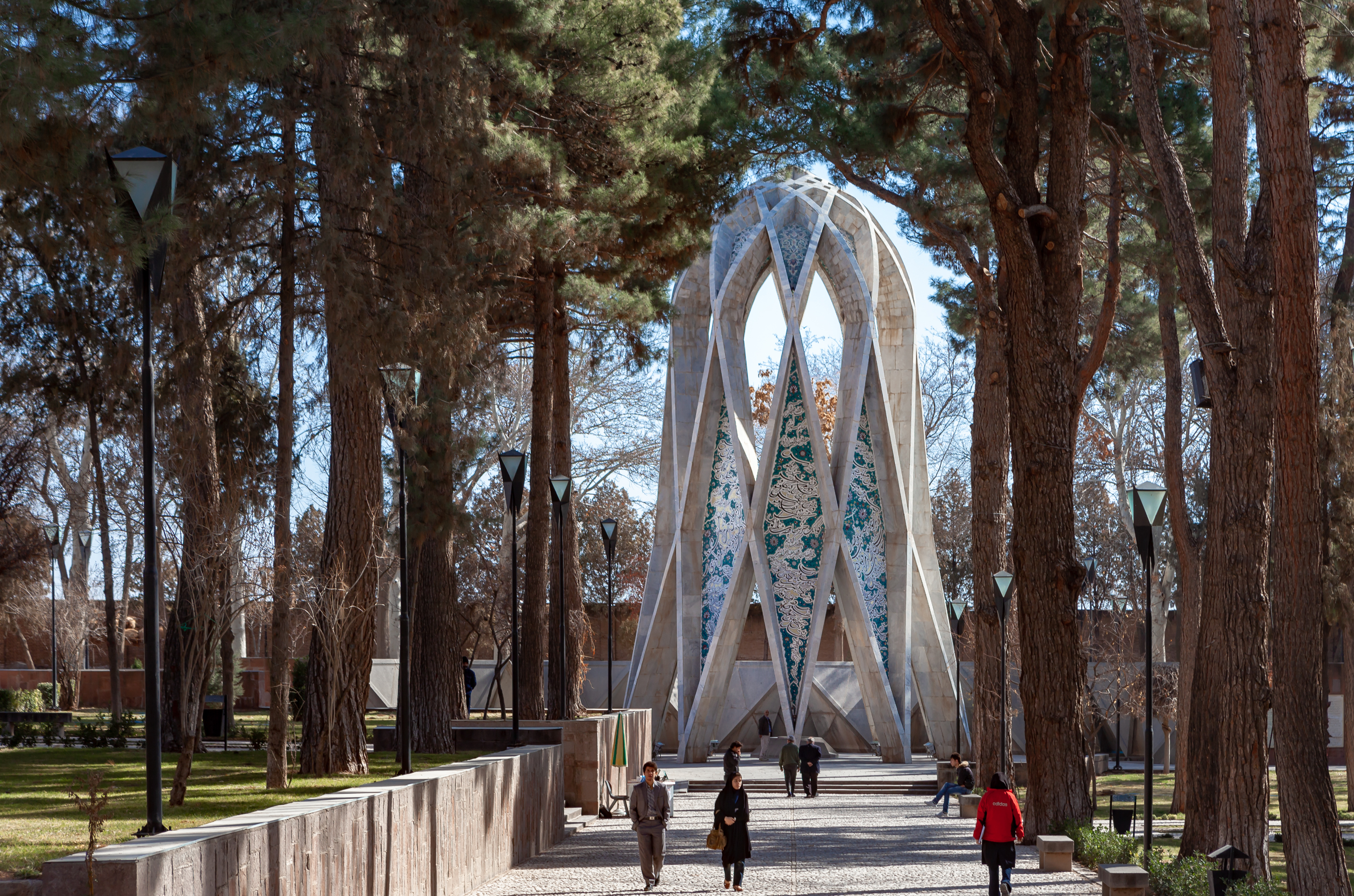 IMG6689 Mausoleum of Omar Khayyam, Nishabur. Architect Hooshang Seyhoun. Nishapur or Nishabur is a city in Razavi Khorasan Province, in northeastern Iran, situated in a fertile plain at the foot of the Binalud Mountains. Nearby are the turquoise mines that have supplied the world with turquoise for at least two millennia. The city was founded in the 3rd century by Shapur I as a Sasanian satrapy capital. From the Abbasid era to the Mongol invasion of Khwarezmia and Eastern Iran, the city evolved into a significant cultural, commercial, and intellectual center within the Islamic world. Nishapur, along with Merv, Herat and Balkh were one of the four great cities of Greater Khorasan and one of the greatest cities in the middle ages, a seat of governmental power in eastern of caliphate, a dwelling place for diverse ethnic and religious groups, a trading stop on commercial routes.